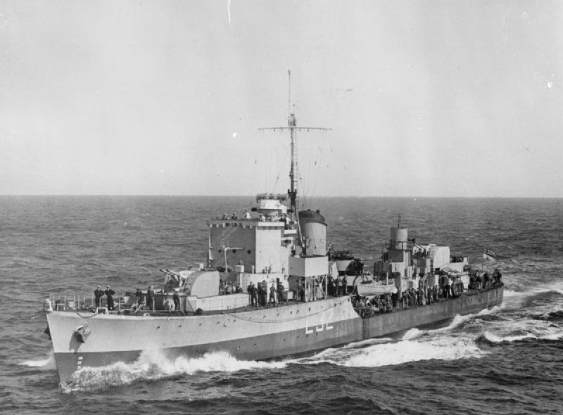 Photograph of British Hunt class destroyer HMS Belvoir.